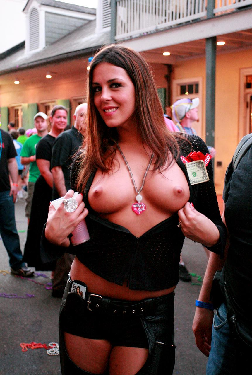 Flashing breasts in New Orleans street during Mardi-Gras.